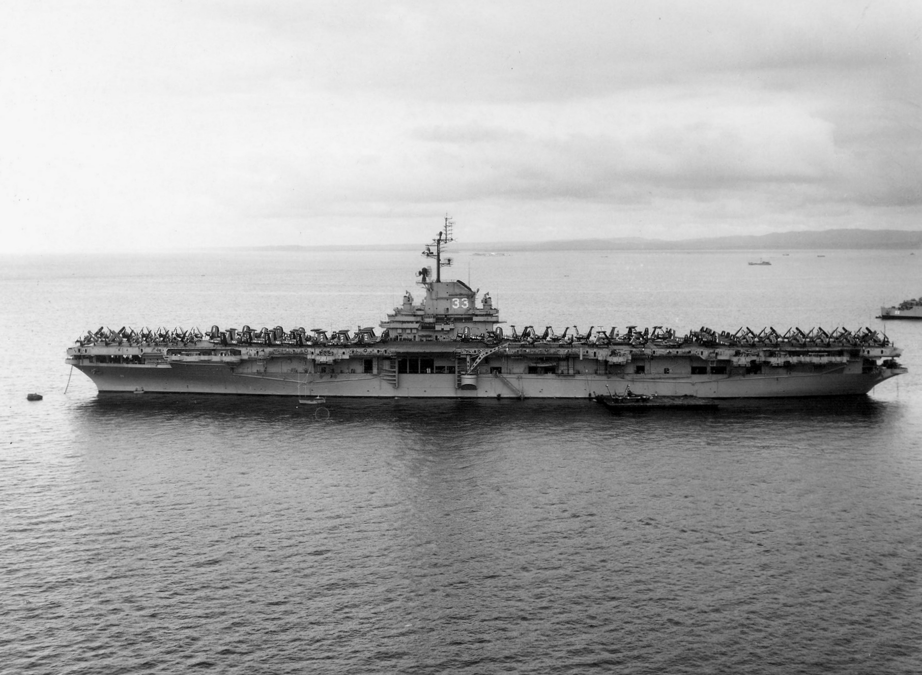 The U.S. Navy aircraft carrier USS Kearsarge (CV-33) at anchor at Yokosuka, Japan. Kearsarge underwent the SCB-27A modernisation from February 1950 to March 1952 at the Puget Sound Naval Shipyard. She was then deployed to Korea with Carrier Air Group 101 (CVG-101) from 11 August 1952 to 17 March 1953. Note the bow of USS Fort Marion (LSD-22) on the right.